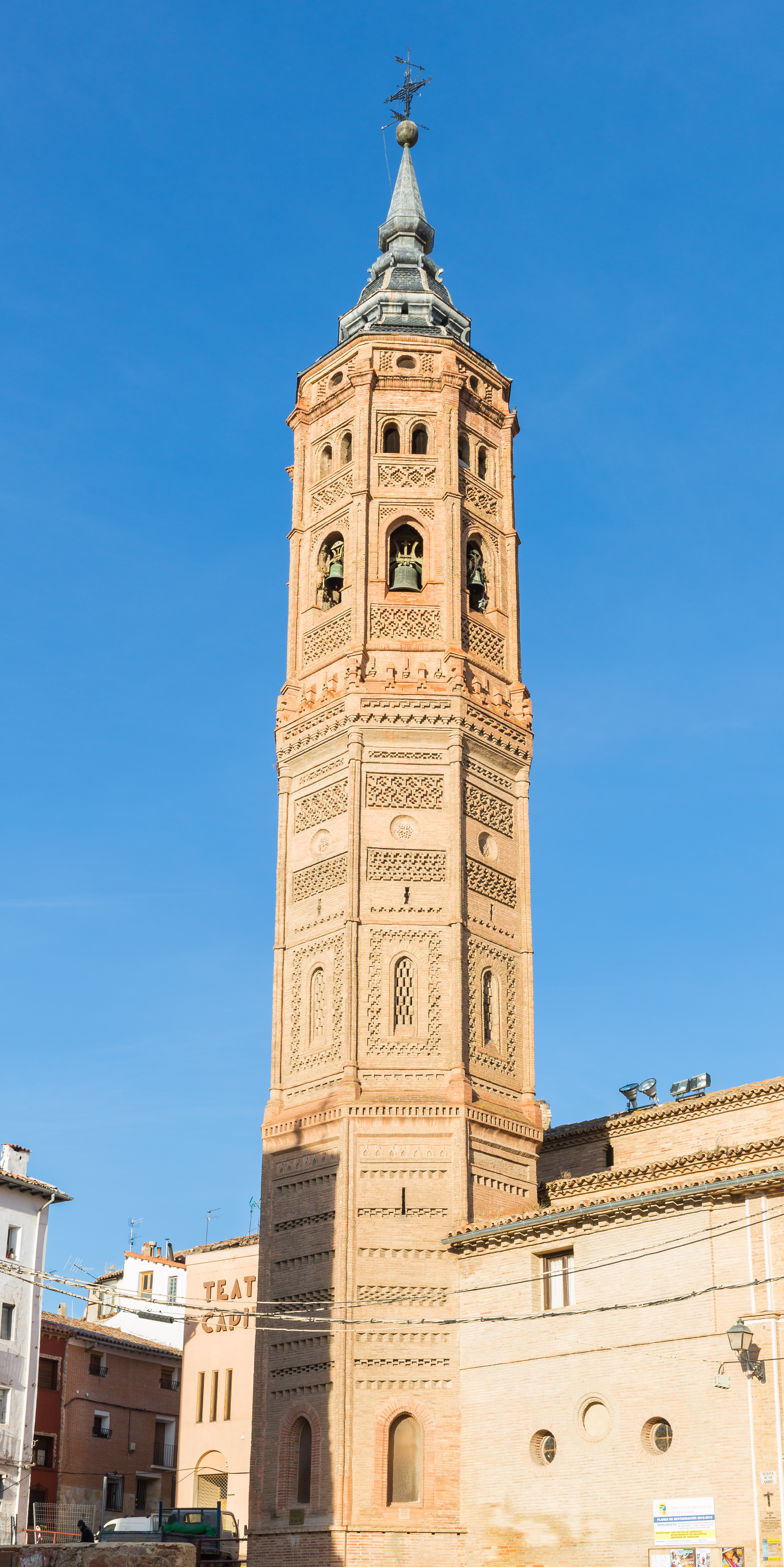 Church of St Andrew, Calatayud, Spain